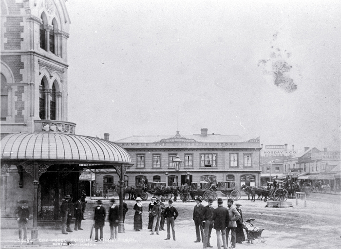 Hackney and hansom cabs at City Hotel crossing at the intersection of Colombo and High Streets : with Fishers' building at left